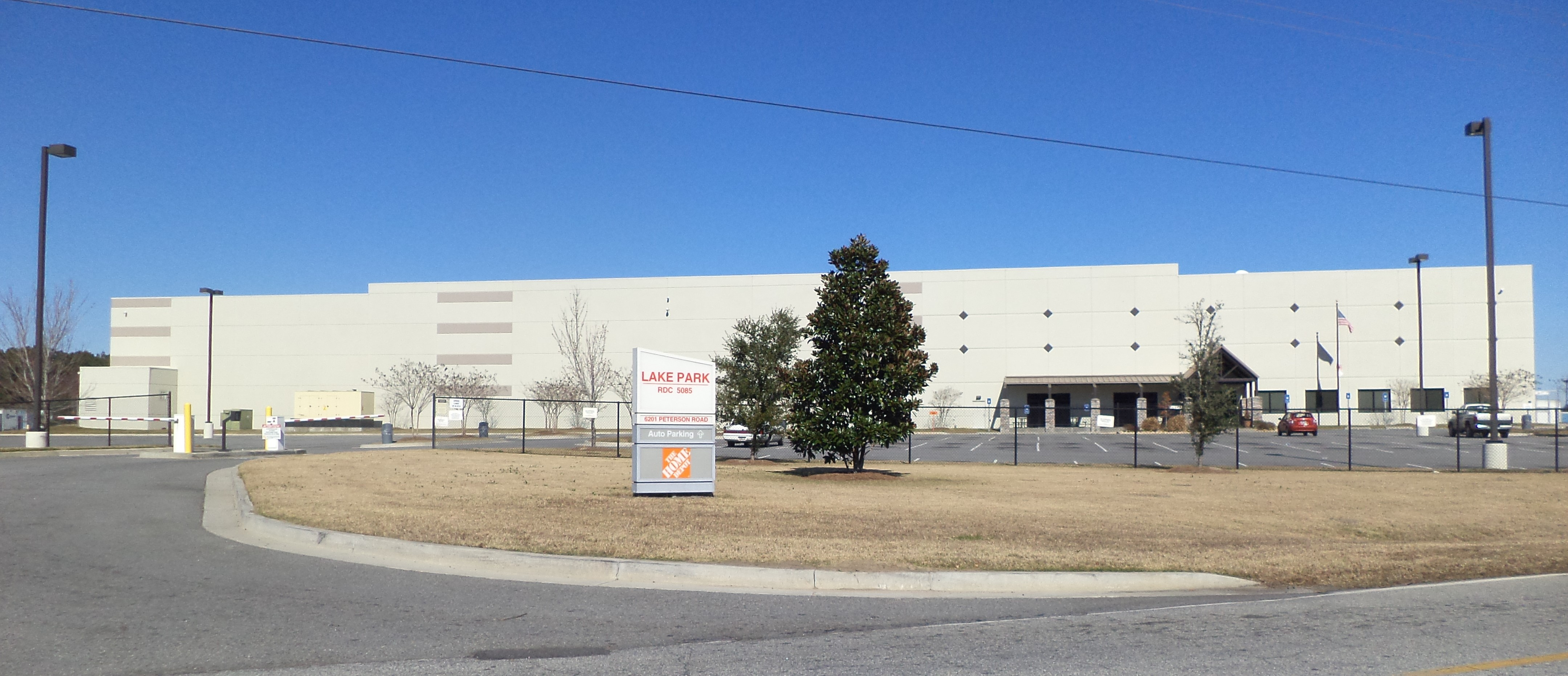 The Home Depot RDC 5085, 6201 Peterson Rd, Lake Park, Lowndes County, Georgia. The mailing address is in Lake Park, but the building is outside of the city limits.